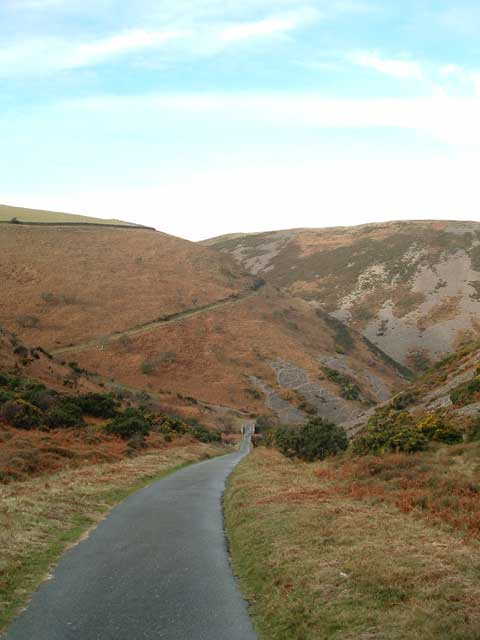 Caddow Combe. This little stream is less than a mile long, nut it has still managed to carve this 200m deep combe into the sandstones of Foreland Point